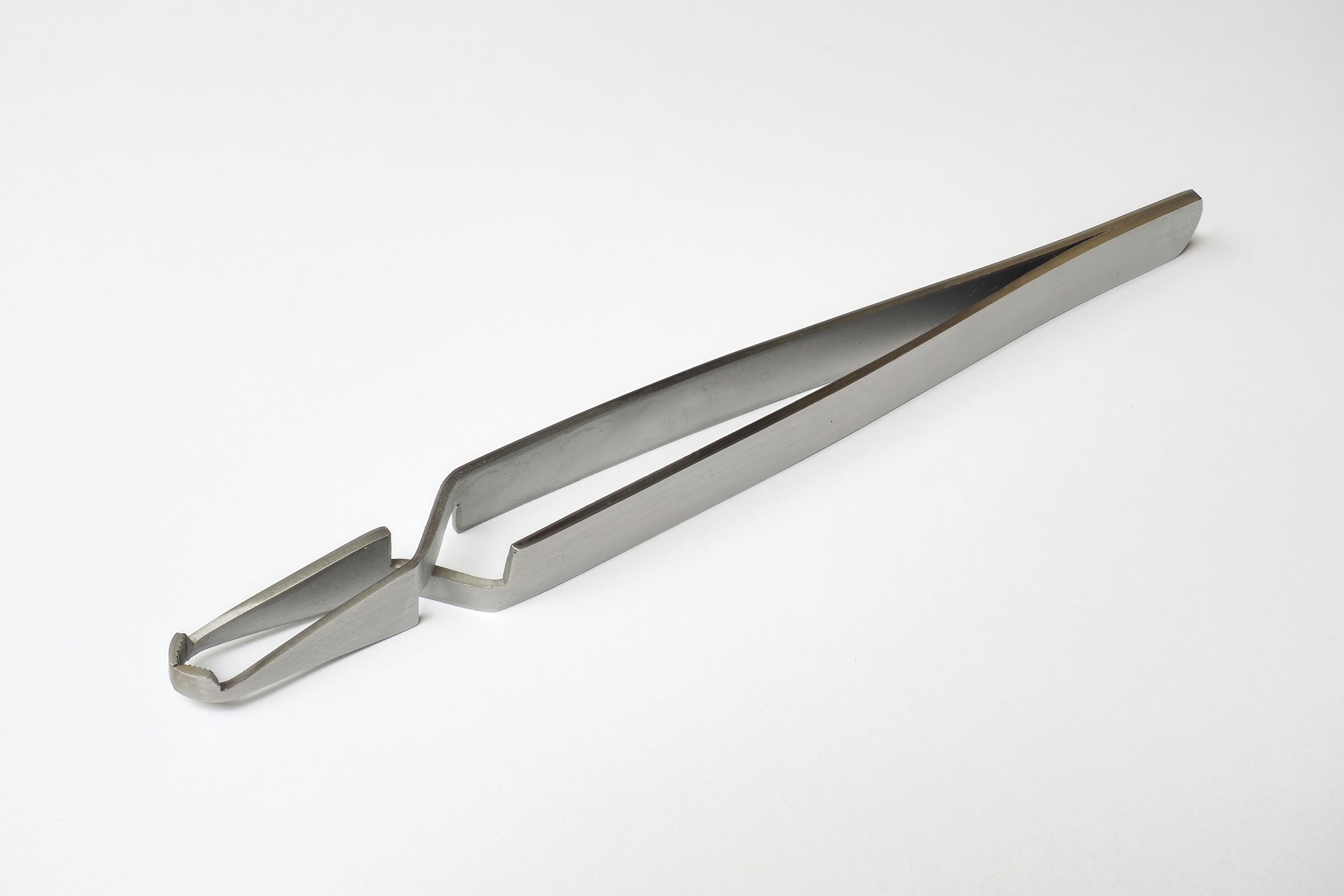 Tick removal forceps made of stainless steel, length 137 mm